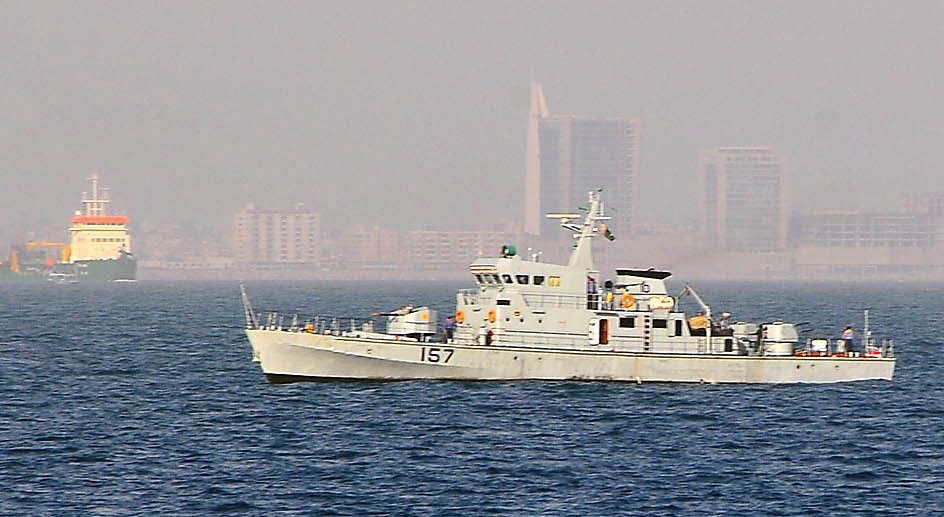 090309-N-4774B-055 INDIAN OCEAN (March 8, 2009) A rigid hull inflatable boat from the guided-missile cruiser USS Lake Champlain (CG 57) approaches Pakistani patrol boat Larkana (PB 157) off the coast of Pakistan during a personnel transfer. Lake Champlain and ships from seven other countries are participating in the multinational naval exercise AMAN, an Urdu word meaning peace. The 10-day exercise focuses on air, surface and maritime security training and includes representatives from 38 countries as well as ships from 11 nations to include the United States, United Kingdom, Pakistan and Australia. Lake Champlain is deployed as part of the Boxer Amphibious Readiness Group supporting maritime security operations in the U.S. 5th Fleet area of responsibility.